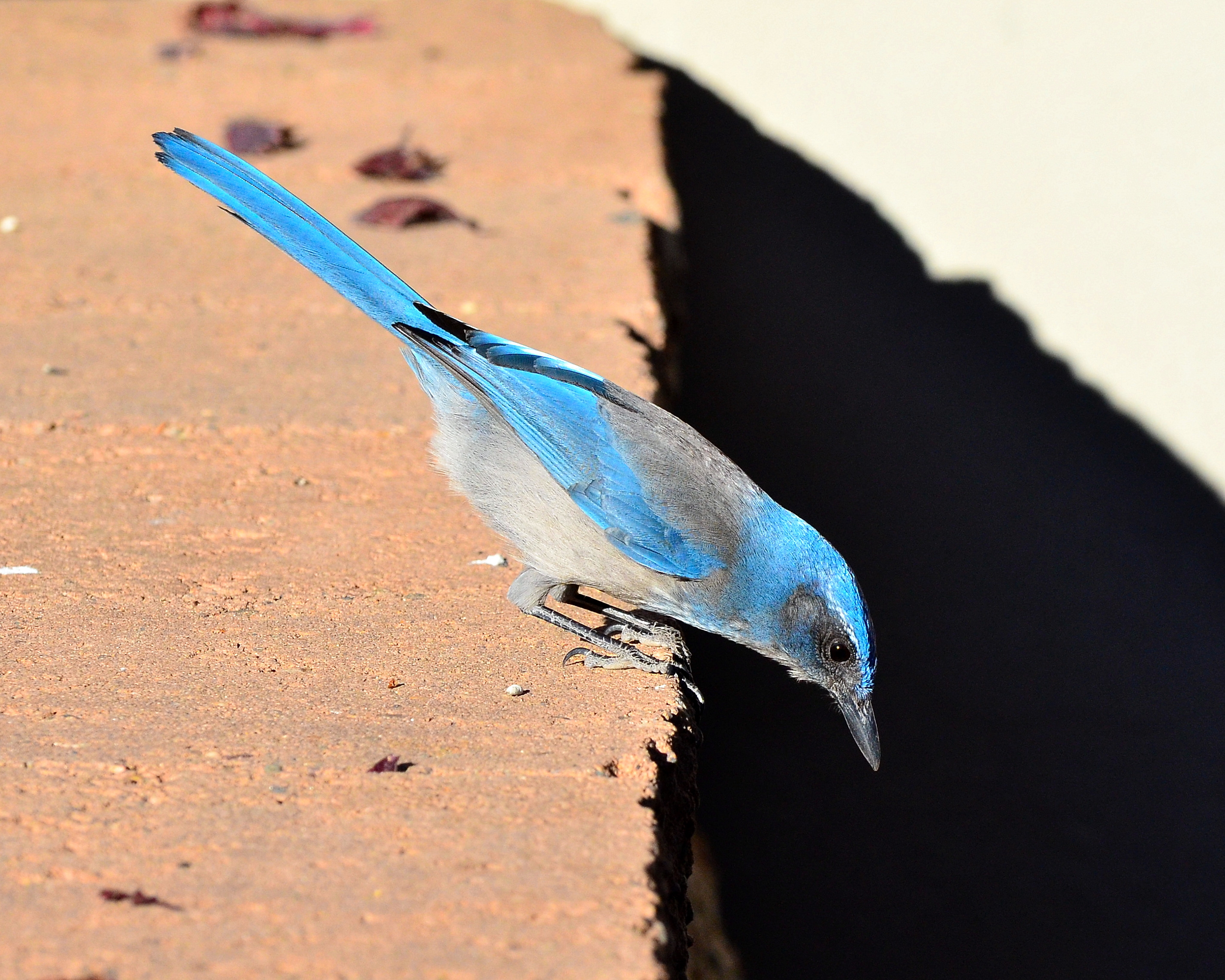 Aphelocoma woodhouseii, looking for dropped peanut. Los Alamos, New Mexico.